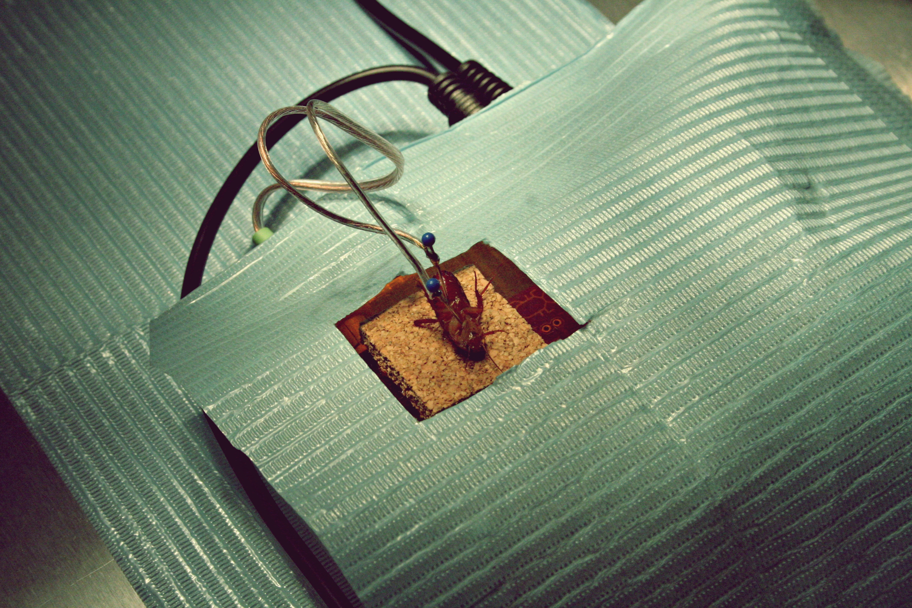 Cockroach is connected to the various bioamplifiers and filters which lets to listen to the neurons and their activity. Insect models are used to measure and observe nervous system response to various biologically active compounds. The beauty of the neuron sound.